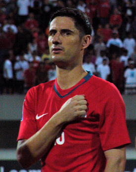 Daniel Mark Bennett (born 7 January 1978), an English-born Singaporean professional Football (soccer)}soccer player who plays for the Singapore Armed Forces Football Club (SAFFC) and the Singapore national football team, during a match between Singapore and Lebanon.